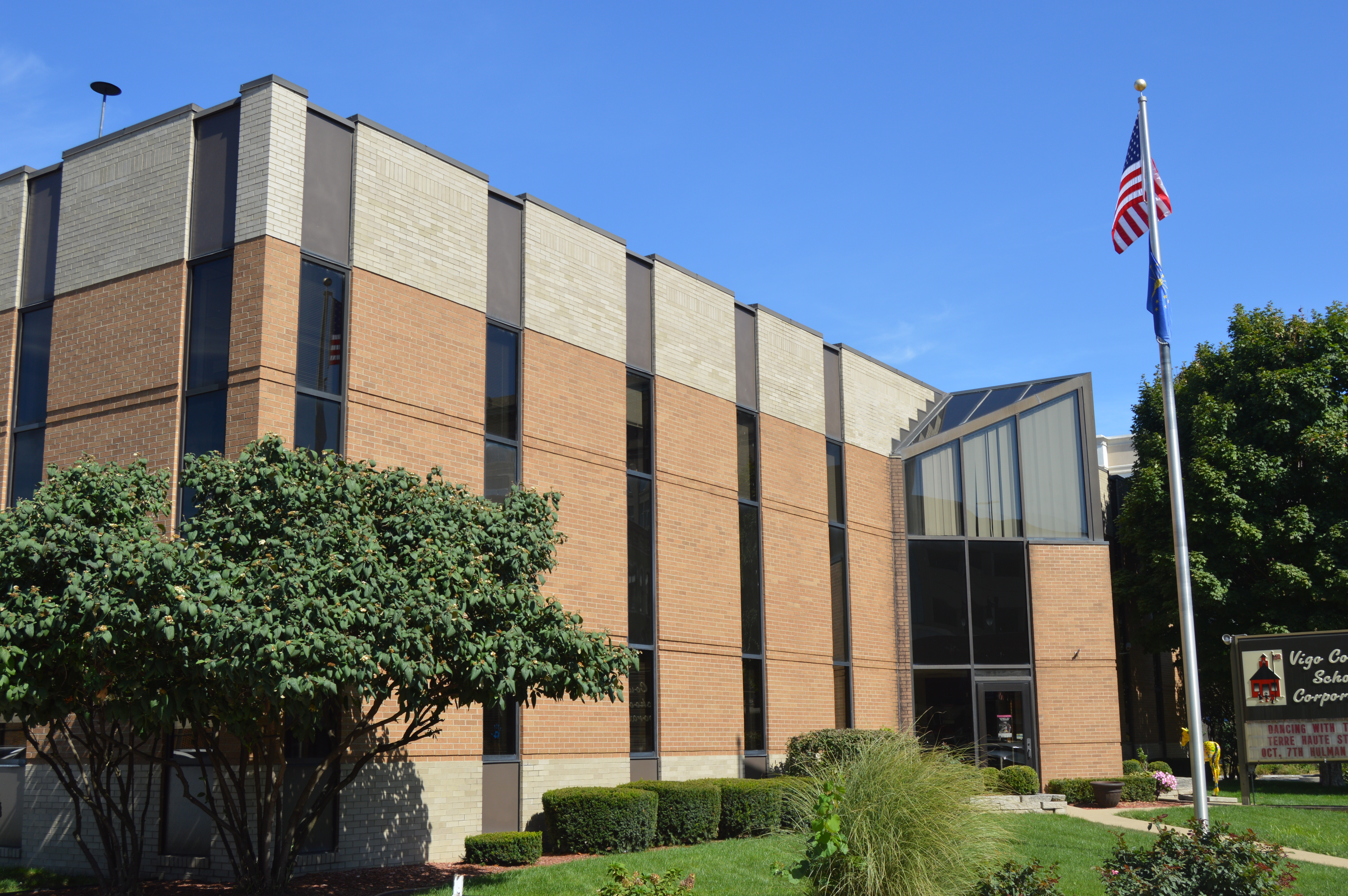 Front of the offices of the Vigo County School Corporation, located at 686 Wabash Avenue in Terre Haute, Indiana, United States.